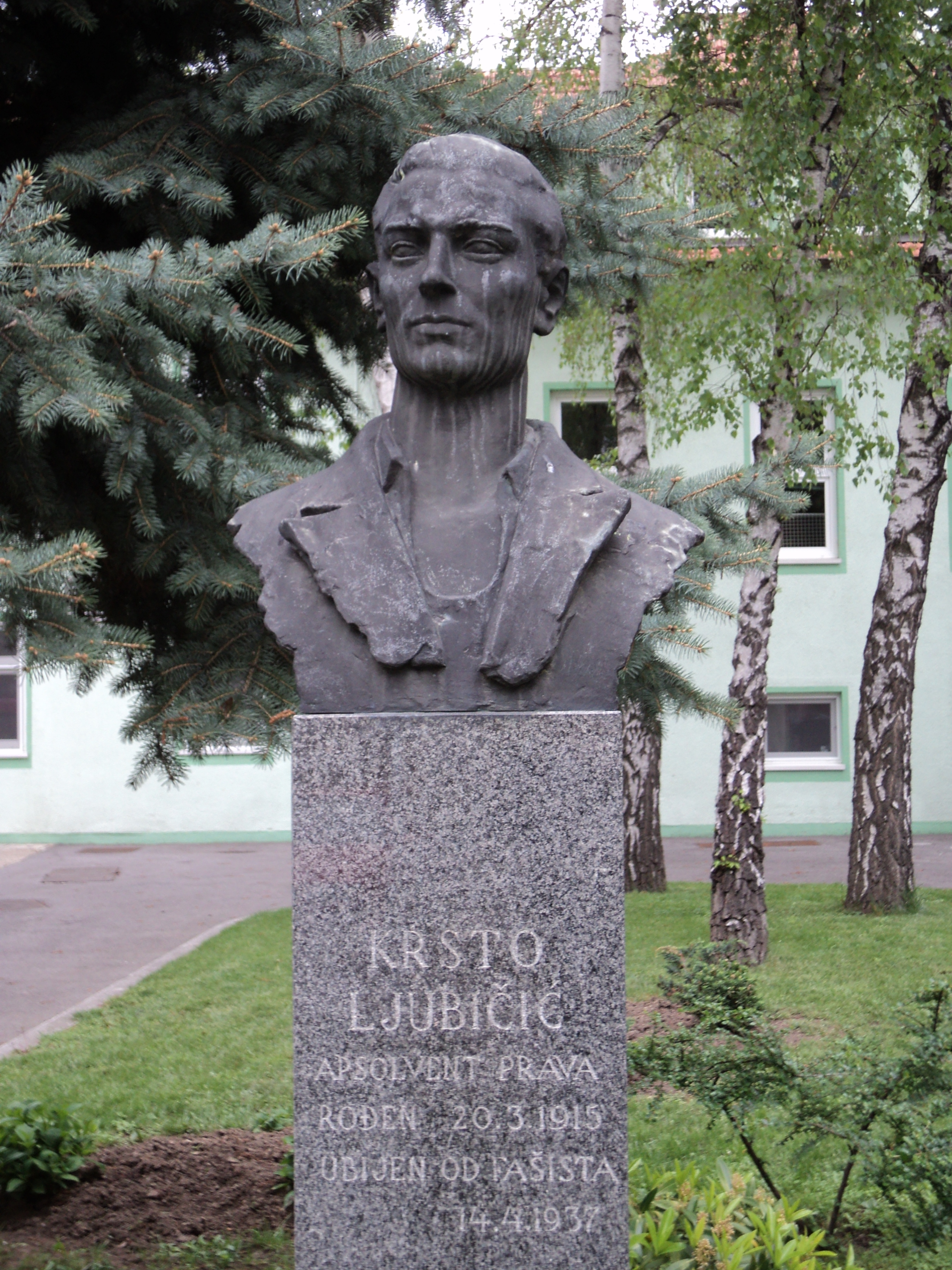 Bust of Krsto Ljubičić (1915-1937) in Gjuro Deželić street, Zagreb.